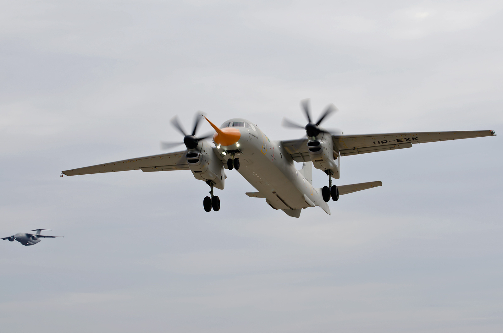 Maiden flight of the Antonov An-132D